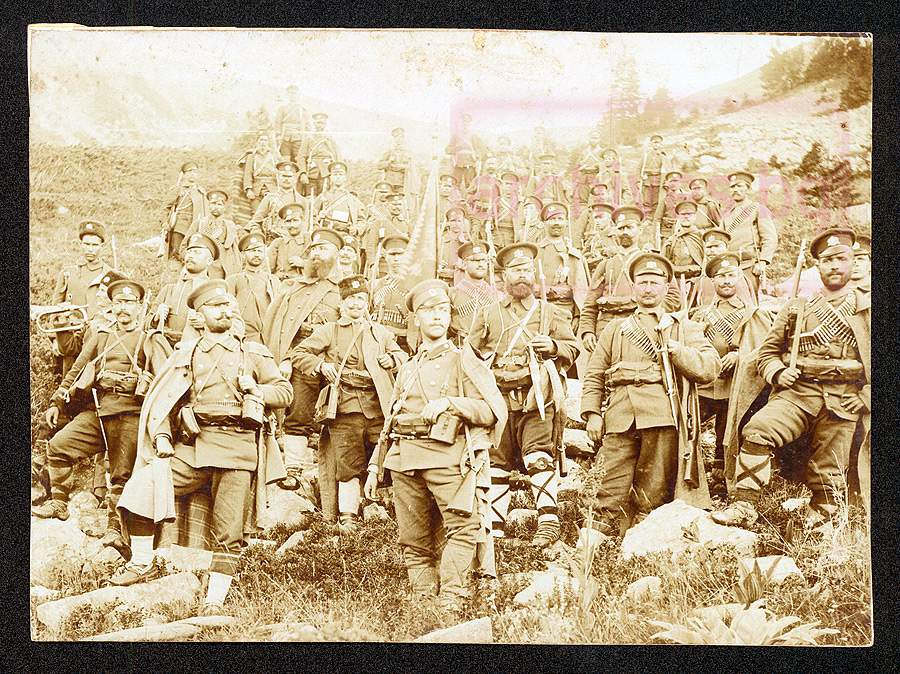 Cheta of SMAC member Liubomir Stoenchov